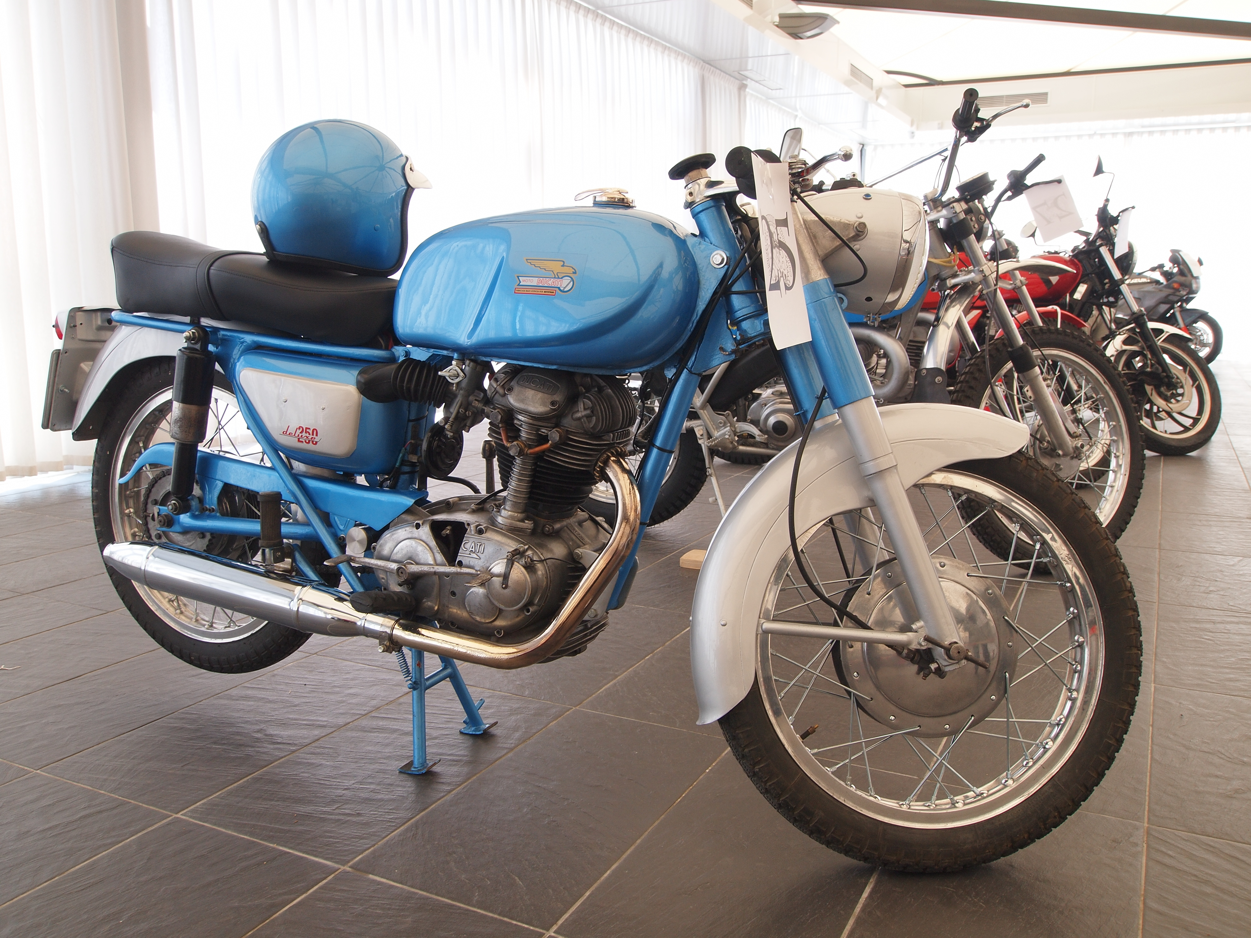 Ducati Deluxe 250cc; built in Spain by Mototrans; one cilynder engine four stroke; at exhibition in Zamora (Spain, 2012)